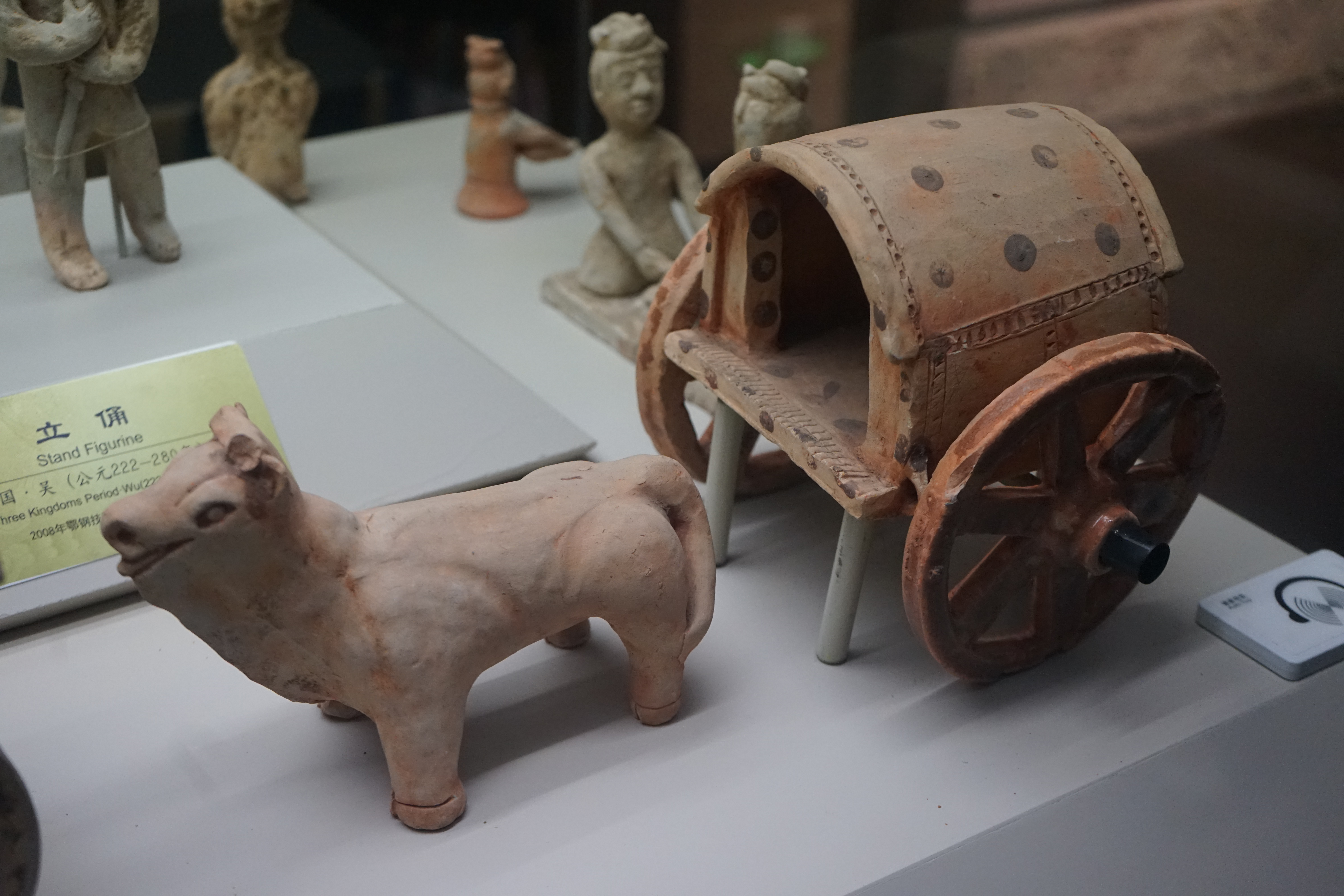 Bullock-cart (牛车). Wu, Three Kingdoms period. Excavated in Echeng. First Grade Cultural Relic.